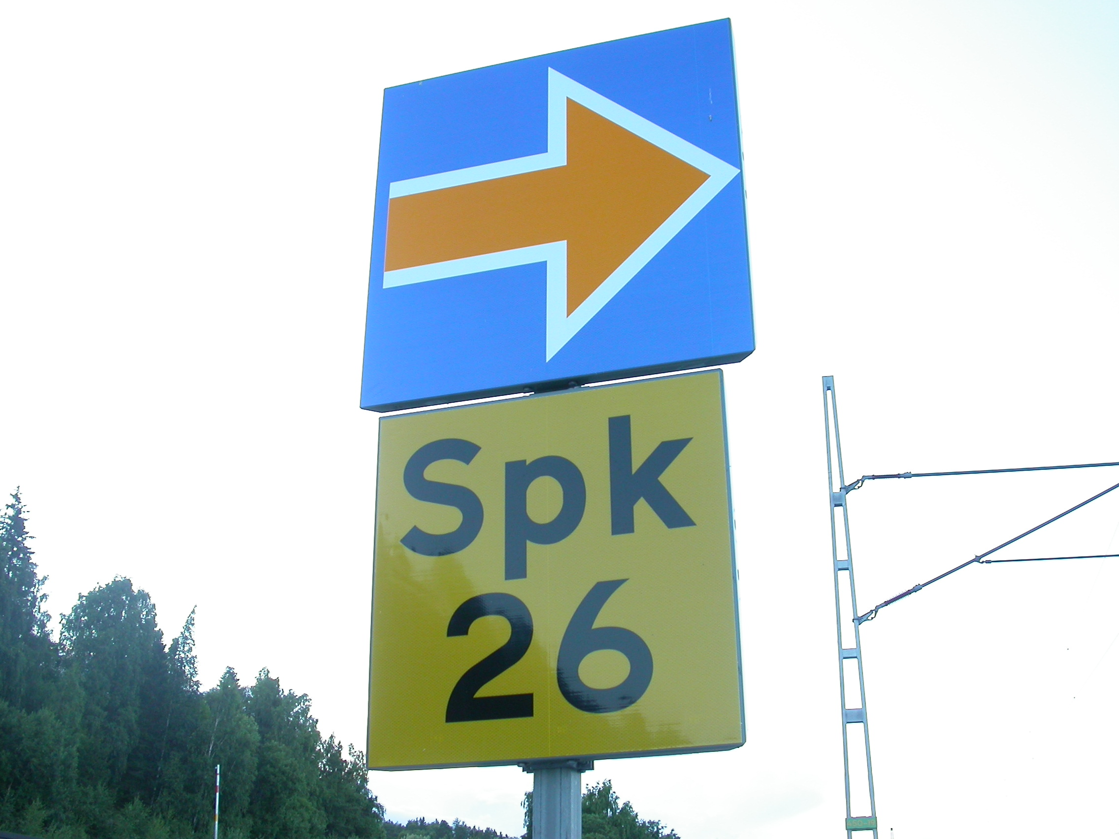 ERTMS Marker Board in Sprängsviken, Sweden